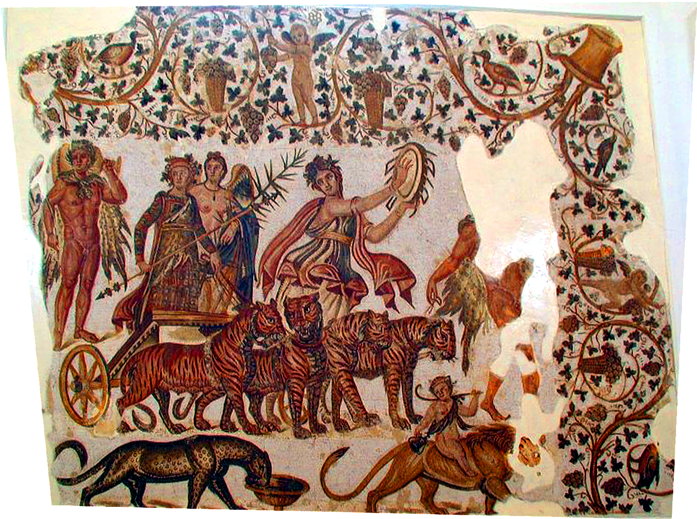 Triumph of Bacchus. Ancient Roman mosaic, Sousse Museum (Tunisia). EDIT: For visibility, transformed the trapezoid distortion, and improved contrast & color depth.